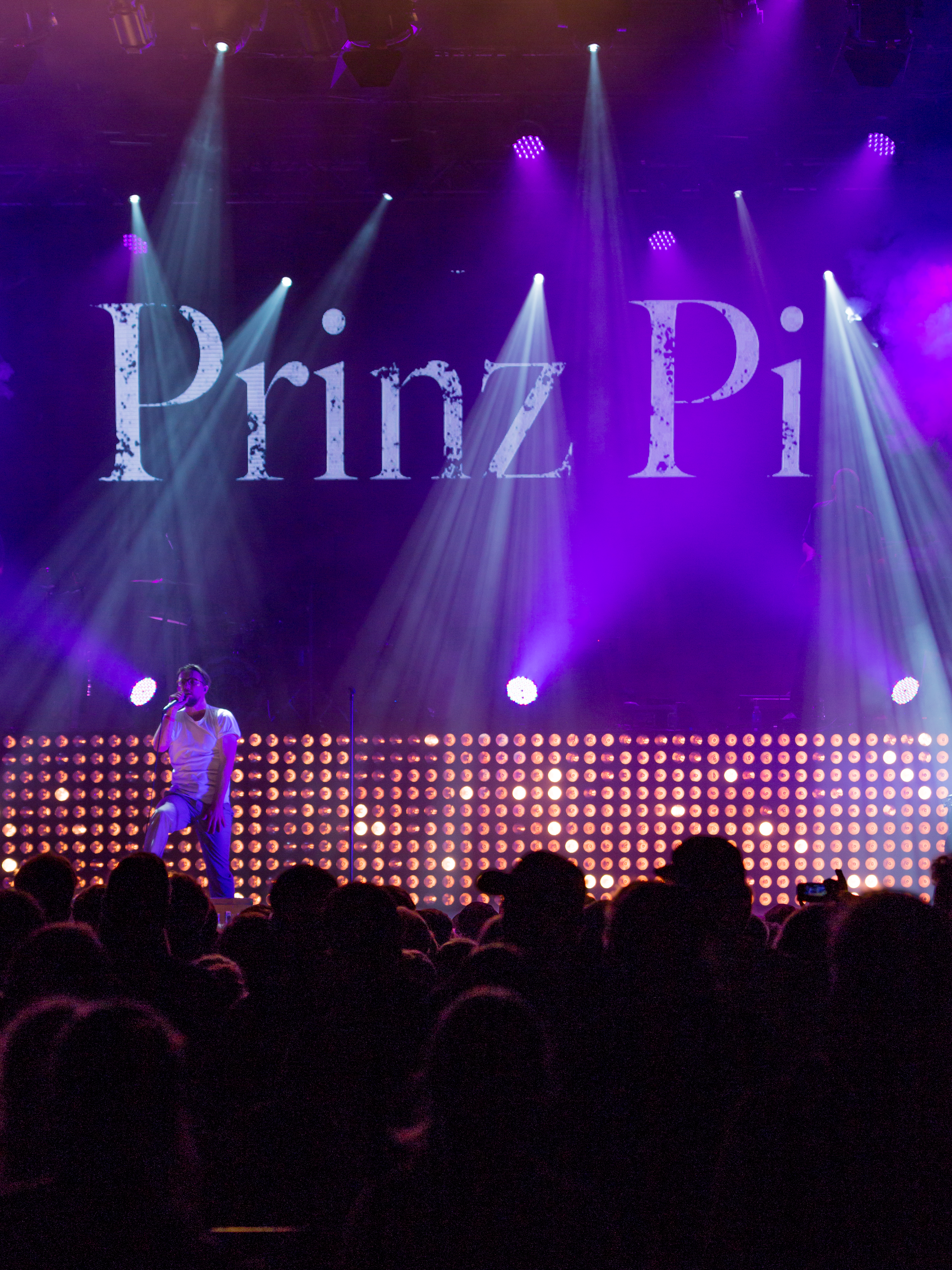 Prinz Pi, Folklore 015 festival at theSchlachthof in Wiesbaden